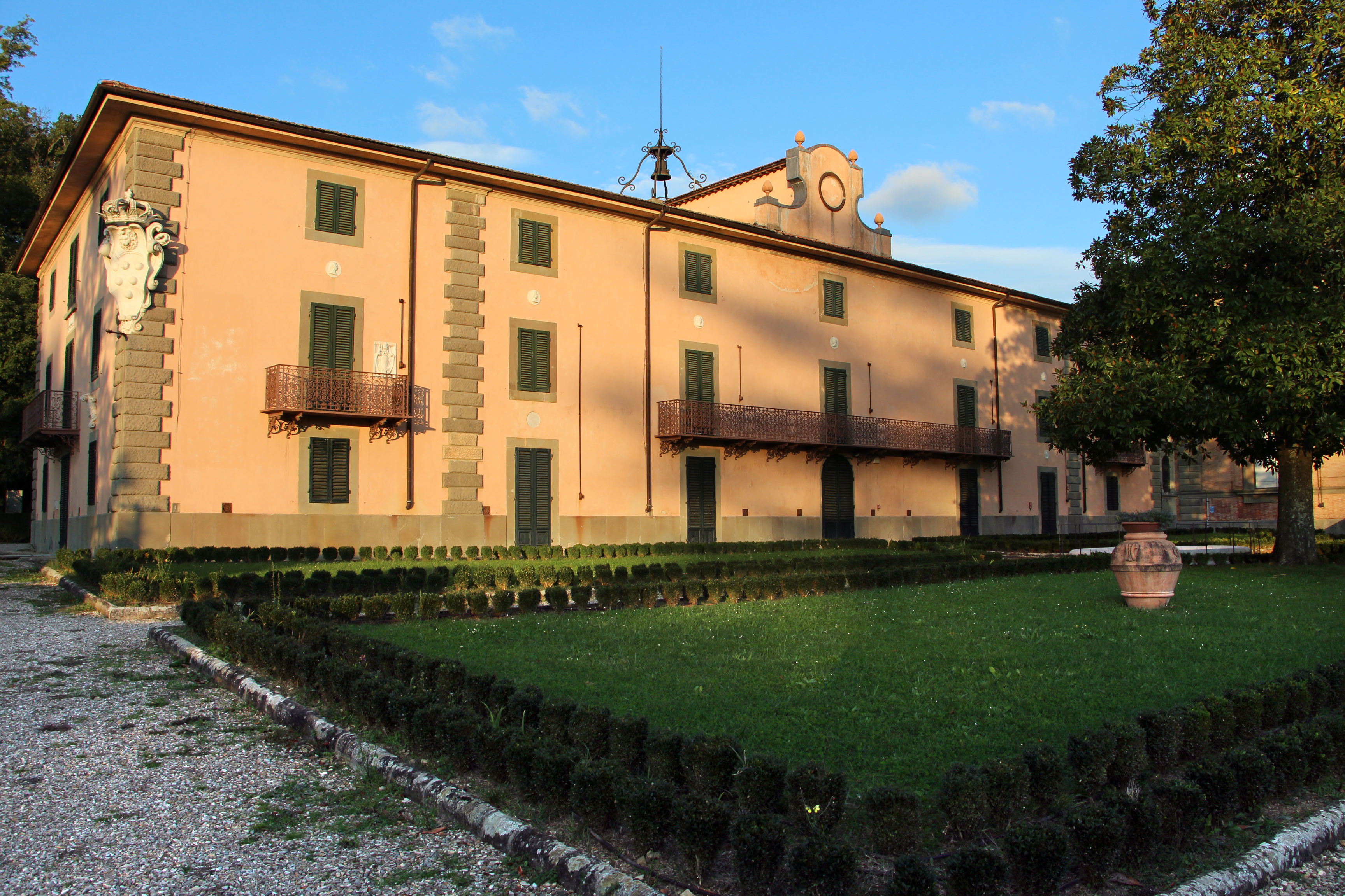 Villa Demidoff (Pratolino)